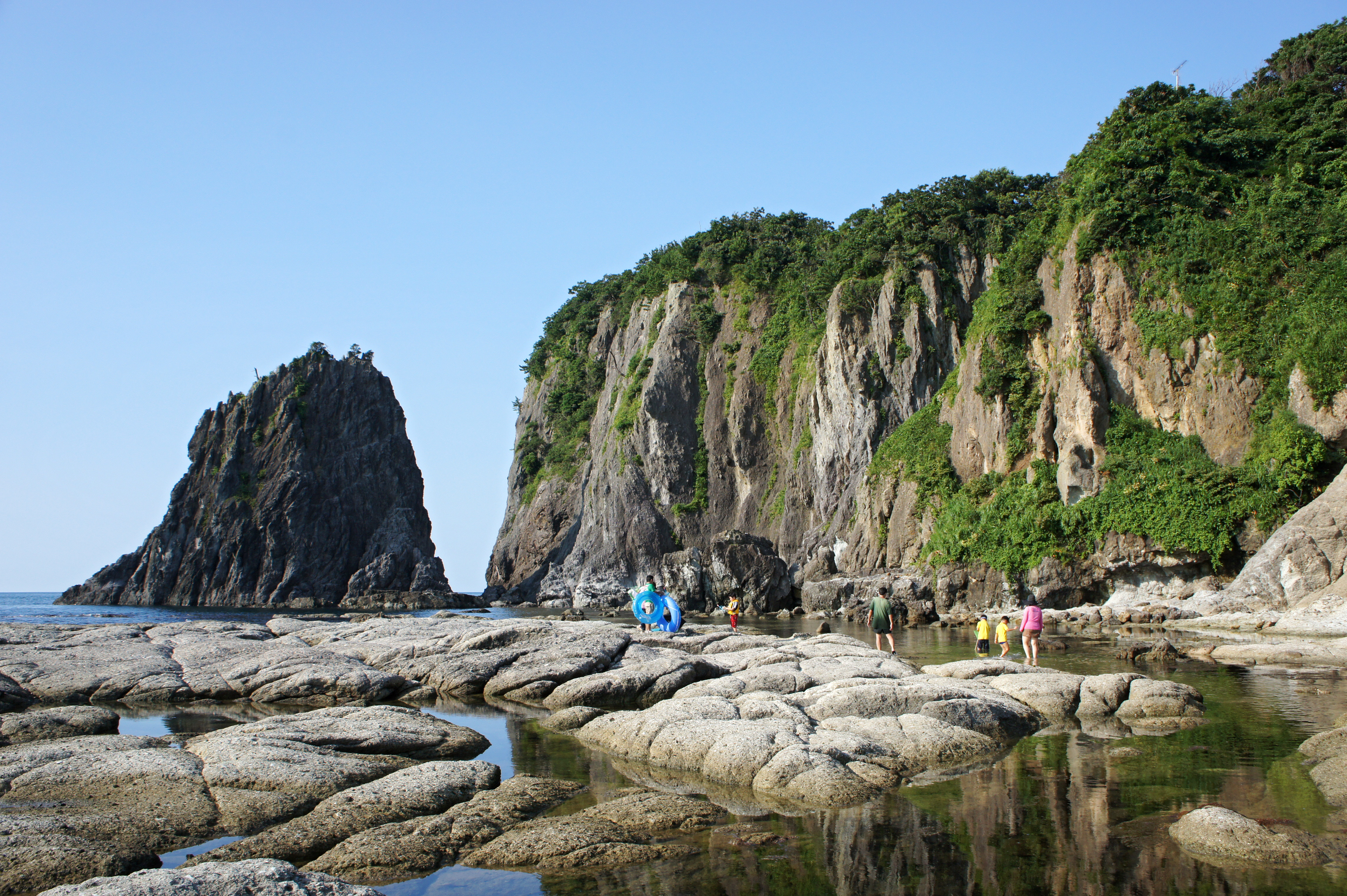 Imagoura of Kasumi Coast in Kami, Hyogo prefecture, Japan. It is a part of "San'in Coast Geopark" which joins in Global Geoparks Network.